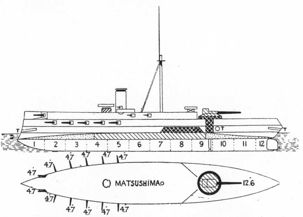 Left side view and deck plan of Japanese cruiser Matsushima (松島)